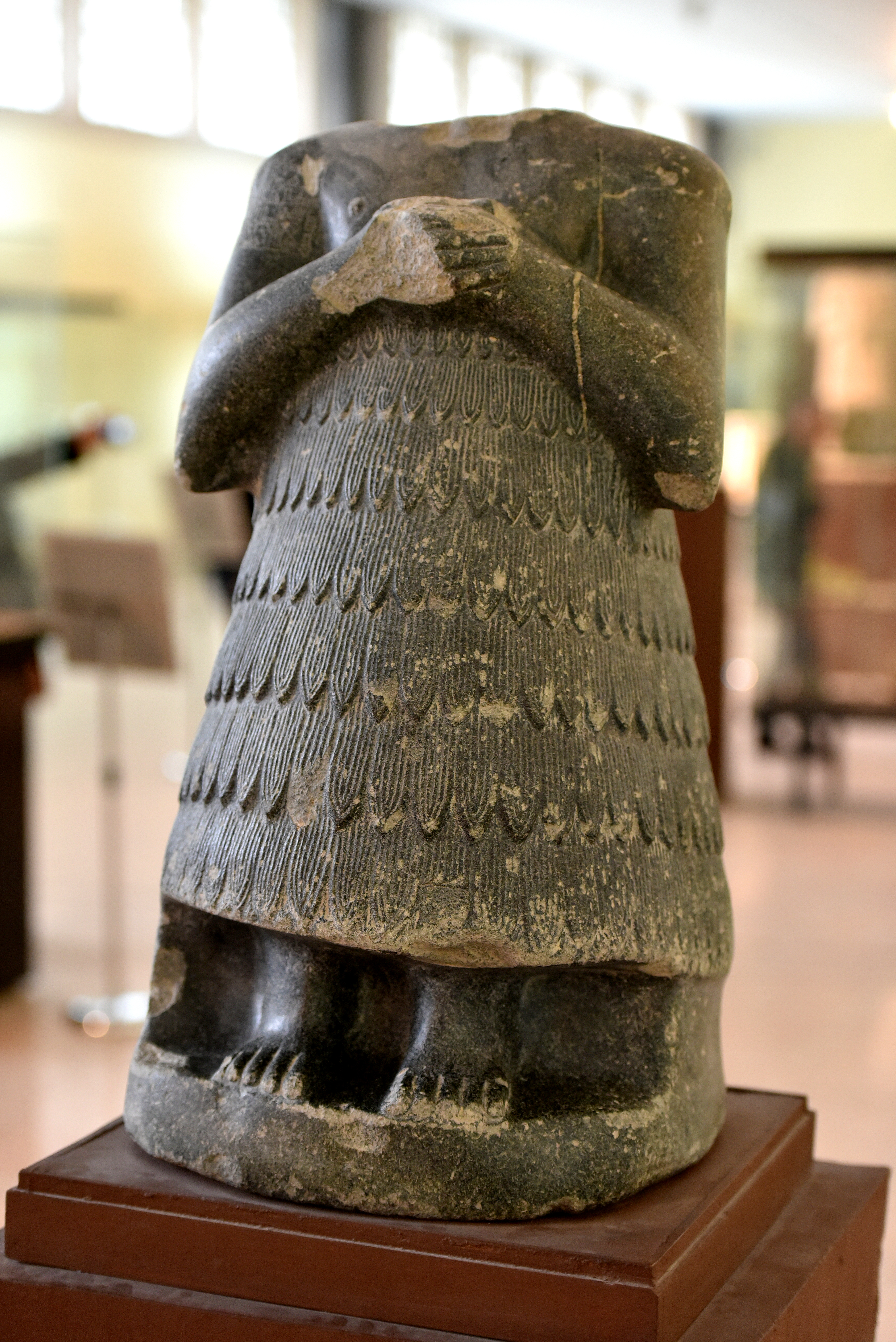 Headless statue of Entemena, ruler of Lagash, c. 2400 BCE. From Ur, Mesopotamia, Iraq. The Iraq Museum, Baghdad.